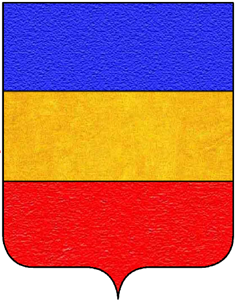 Vendramin Family coat of arms